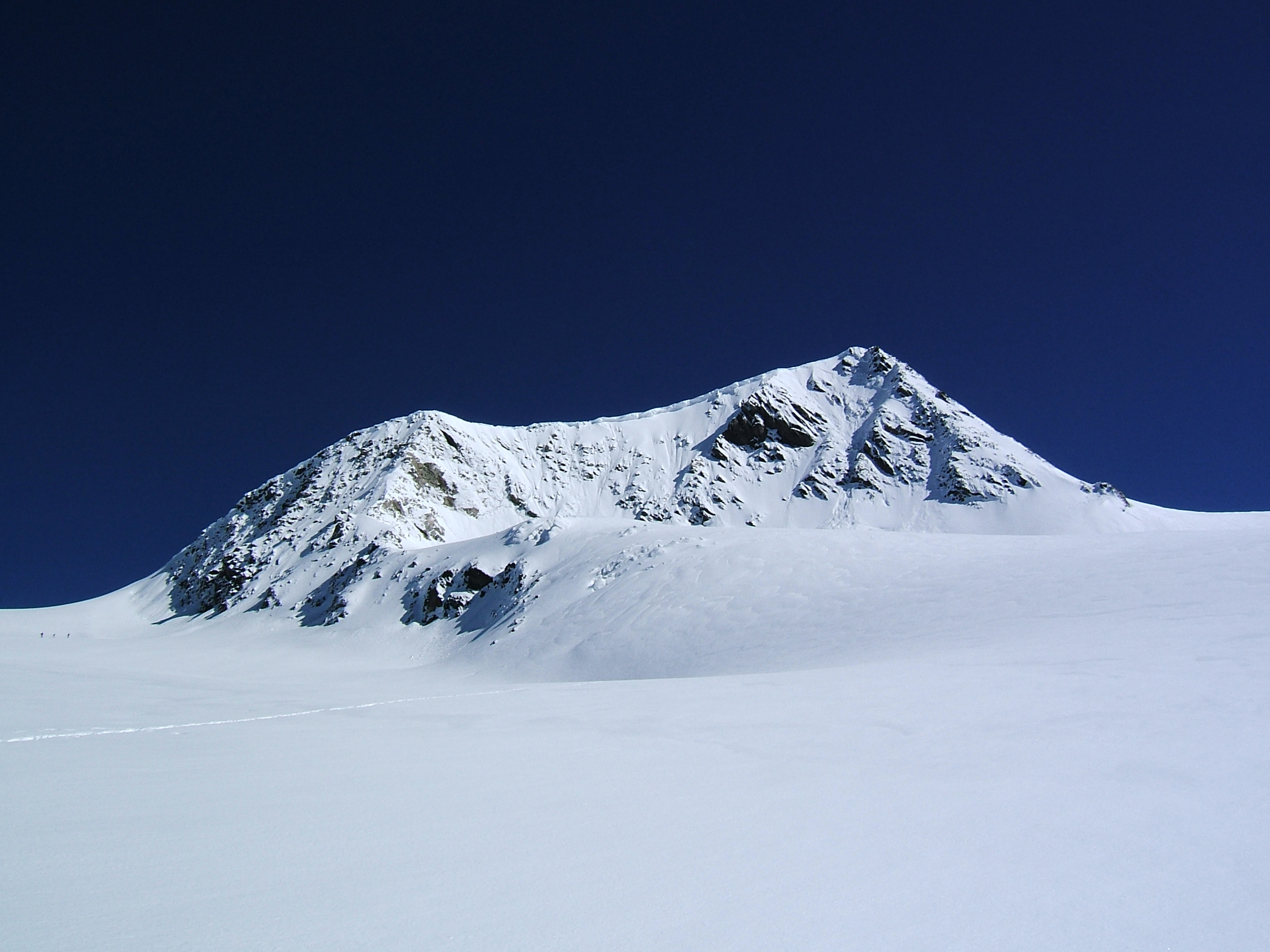 Rainerhorn from south, with fresh-fallen snow